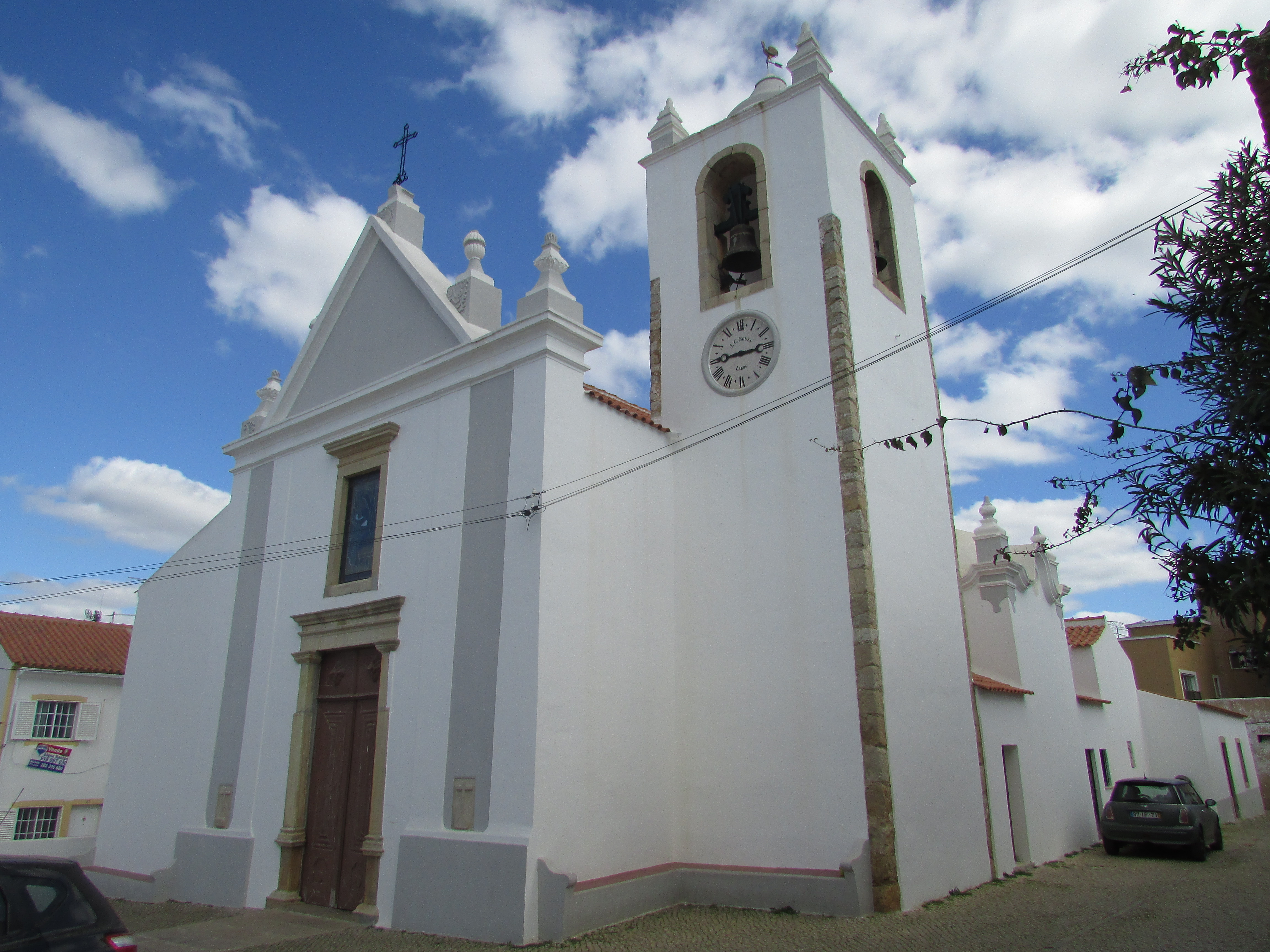 The south west corner of Algoz main Parish church located in the town of Algoz, Algarve, Portugal.